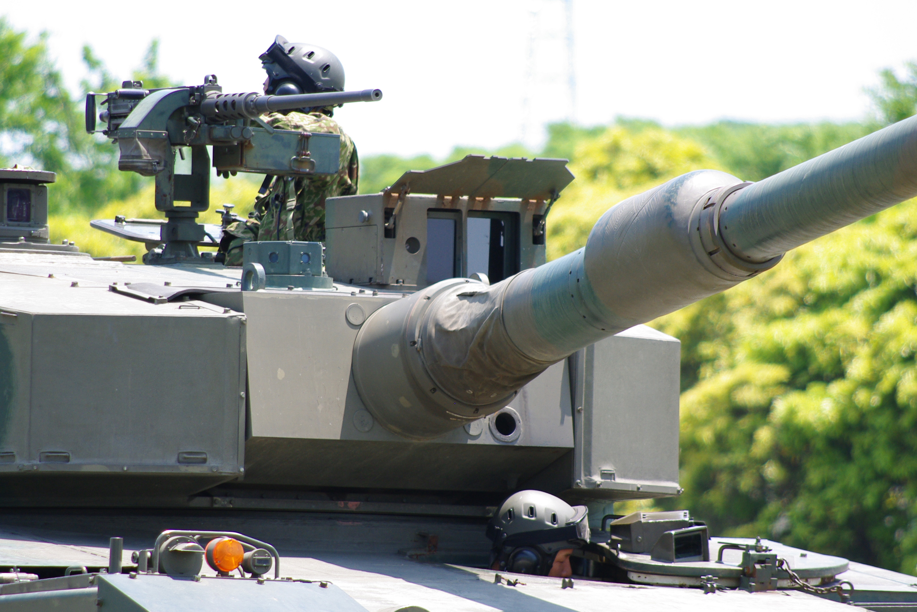 JGSDF Type90 Tank,1st Armored Training Unit/Eastern Army Combined Brigade.Taken by Los688,in Camp Takeyama,Japan,at 27-May-2012.PD-self ja:90式戦車 2012年05月27日、東部方面混成団第1機甲教育隊 武山駐屯地で撮影。